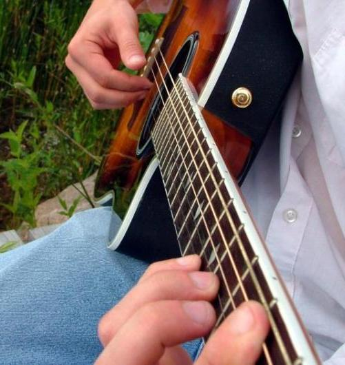 Playing an acoustic guitar. The guitar is a Harley Benton (HBF20CE/TS); an Ovation clone, that is. (A friend of mine plays the guitar on a dock by a lake, in front of a summer cottage at Mäntyharju, Finland in July, 2004.)